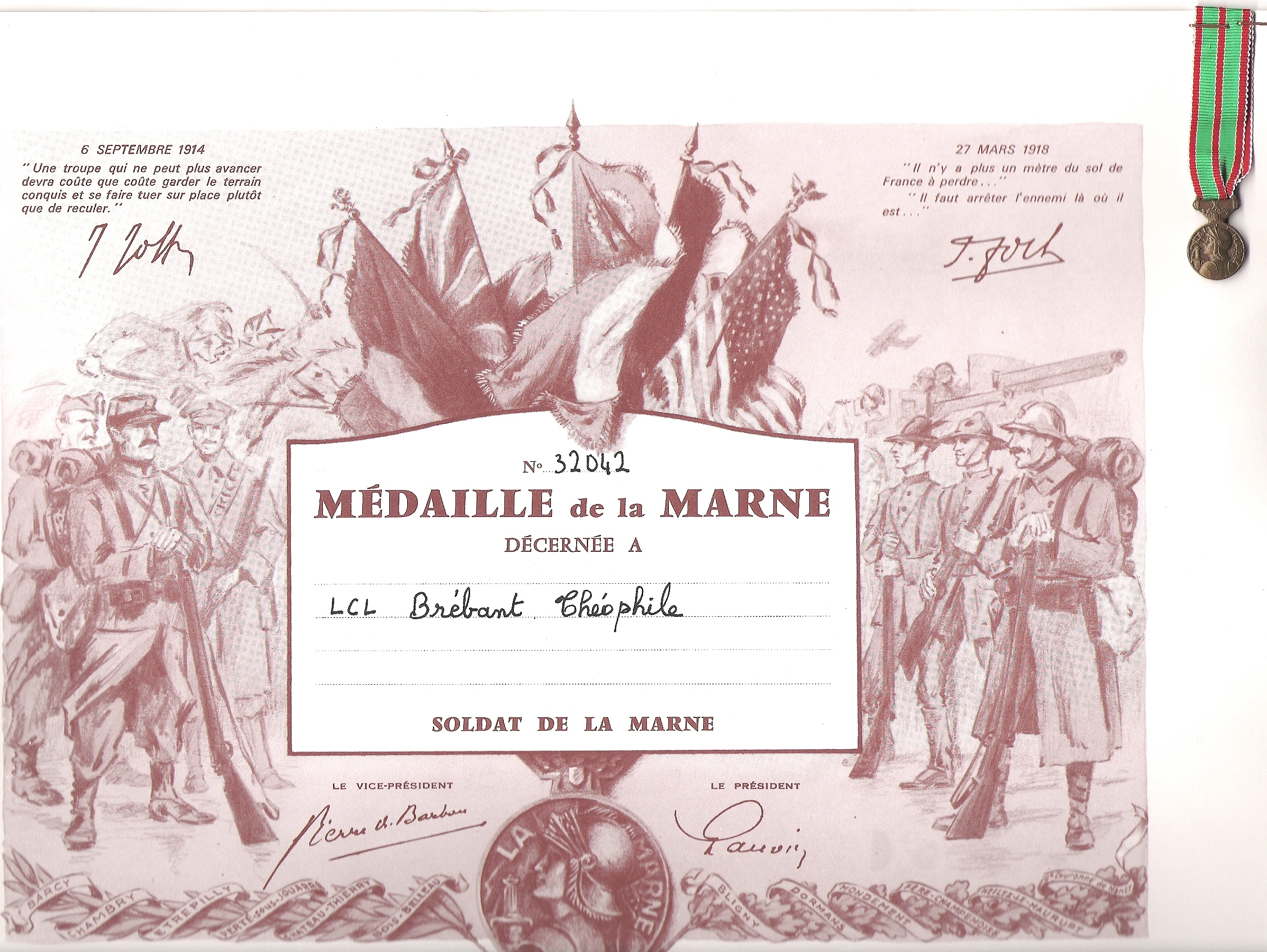 Diplome de la Médaille de la Marne awarded to Lieutenant-colonel Brébant.